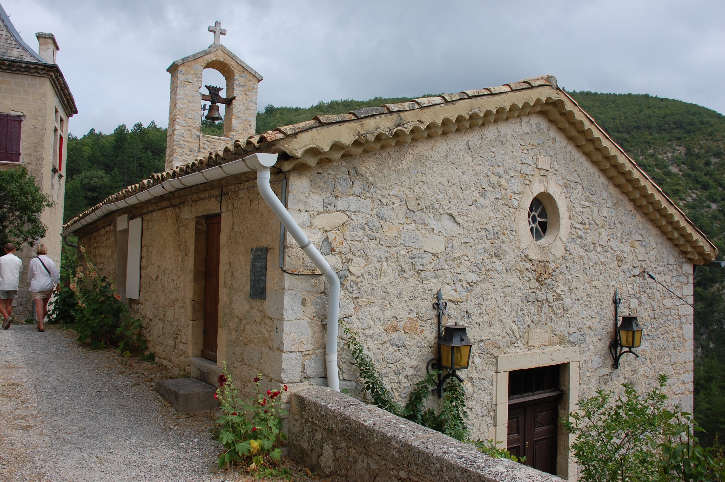 Church of Aulan